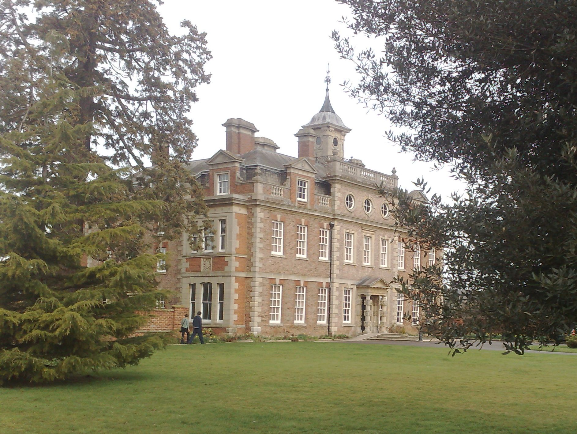 w: Wallsworth Hall, Twigworth, Gloucester, England. Home of Nature in Art. Taken with a Nikon D40.